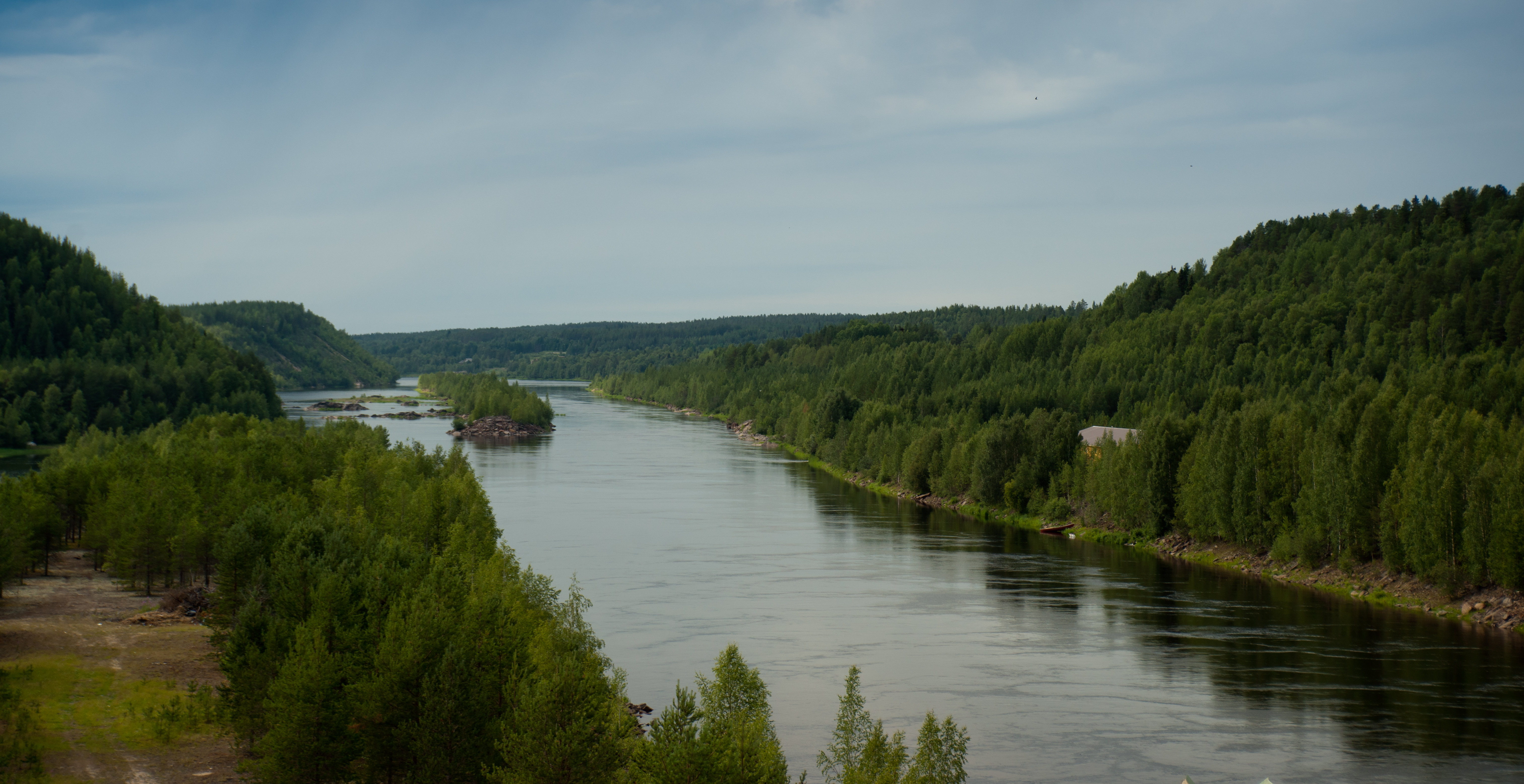 Kemijoki in Rovaniemi, Finland.